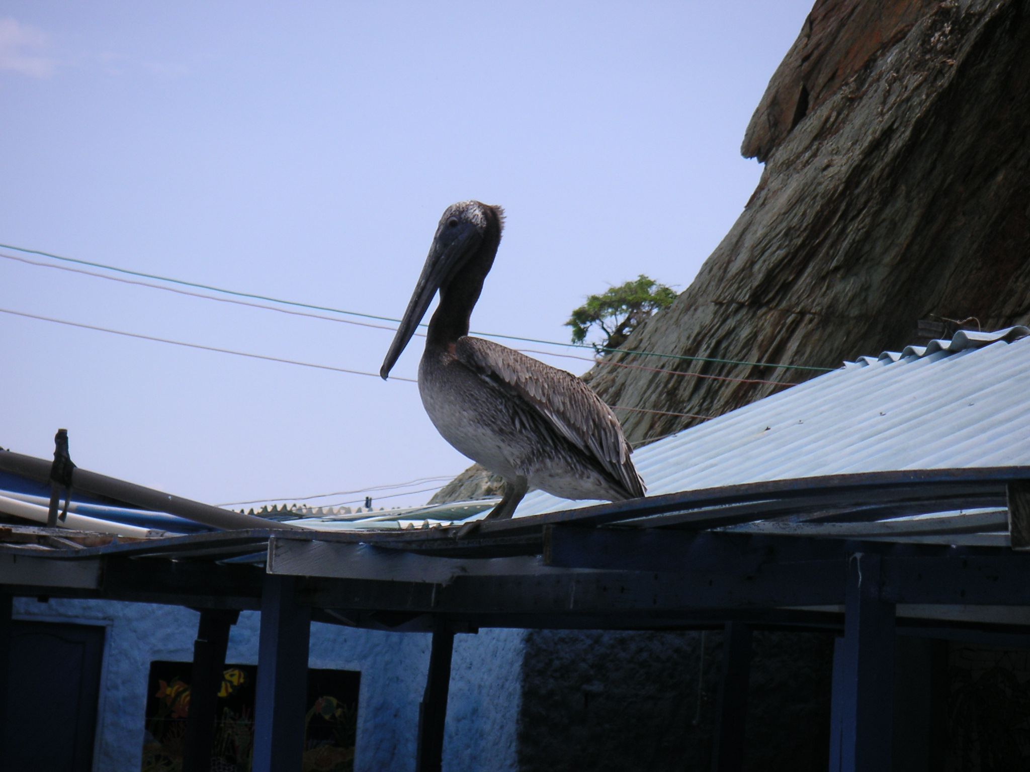 Description: Pelikan bei Santa Marta, Kolumbien Source: Louise Wolff (darina), May 2005